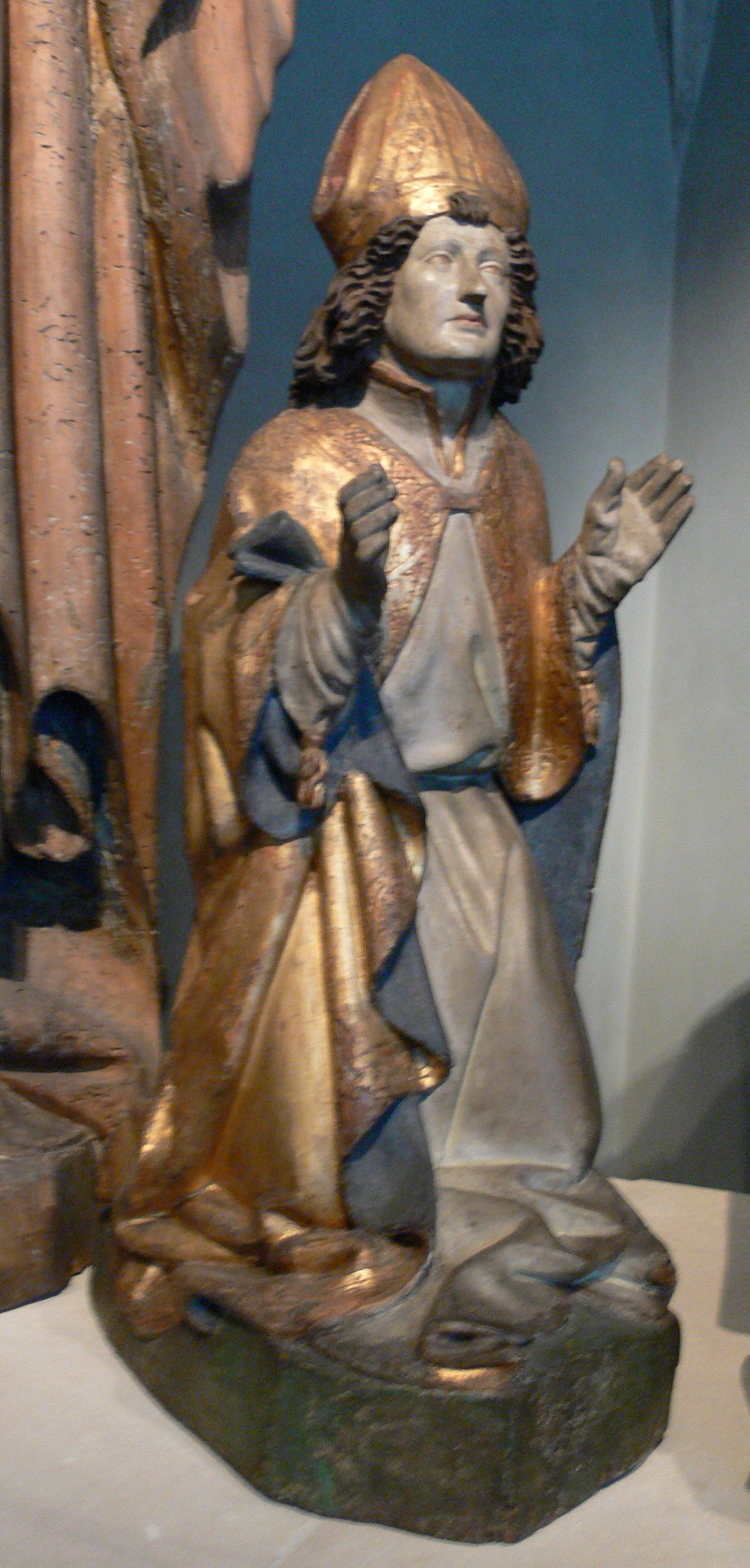 Sculpture from the Freising Cathedral Altarpiece of 1443